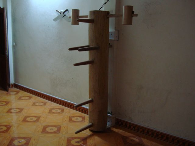 Wooden dummy (Sifu Tiển, Vietnamese Wing Chun-Vietnamese Praise Spring boxing)